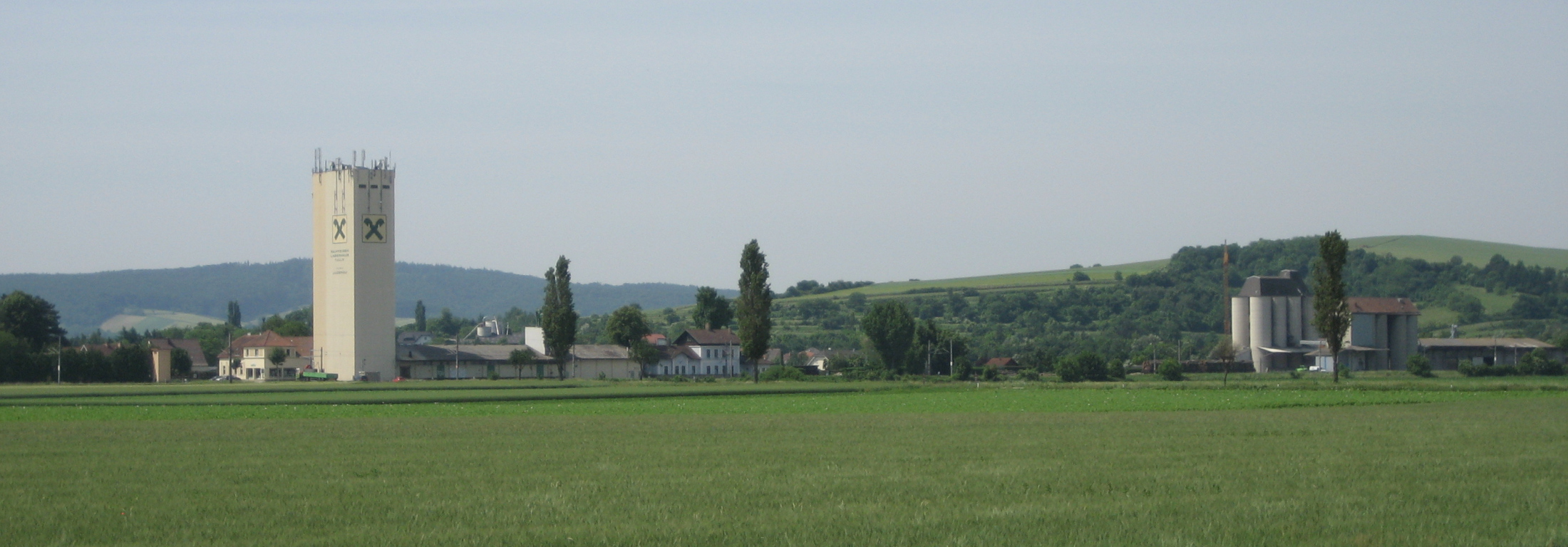 train station Judenau-Sieghartskirchen in Lower Austria